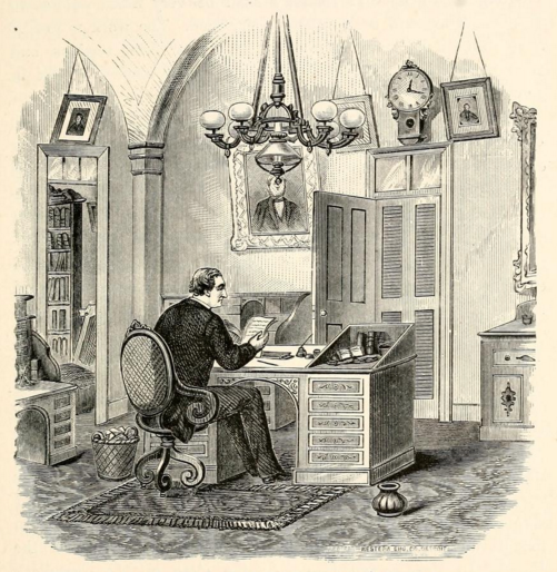 Secretary of Interior Zachariah Chandler in office at the Department of Interior